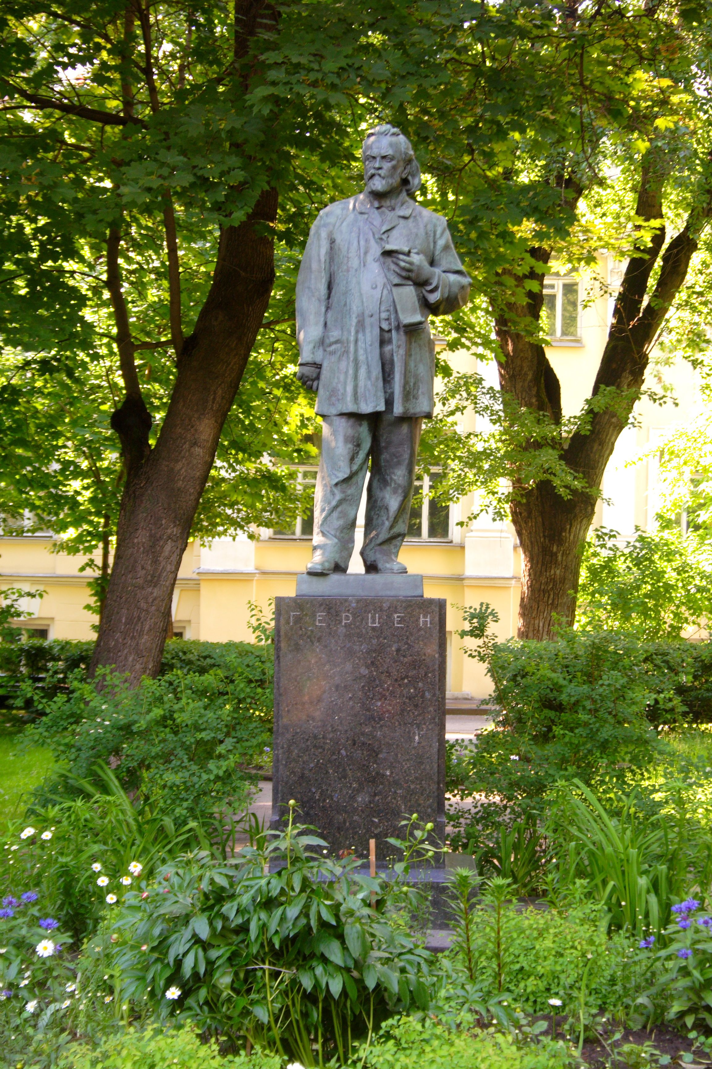 Statue of Alexander Herzen in Moscow, Tverskoi Boulevard.